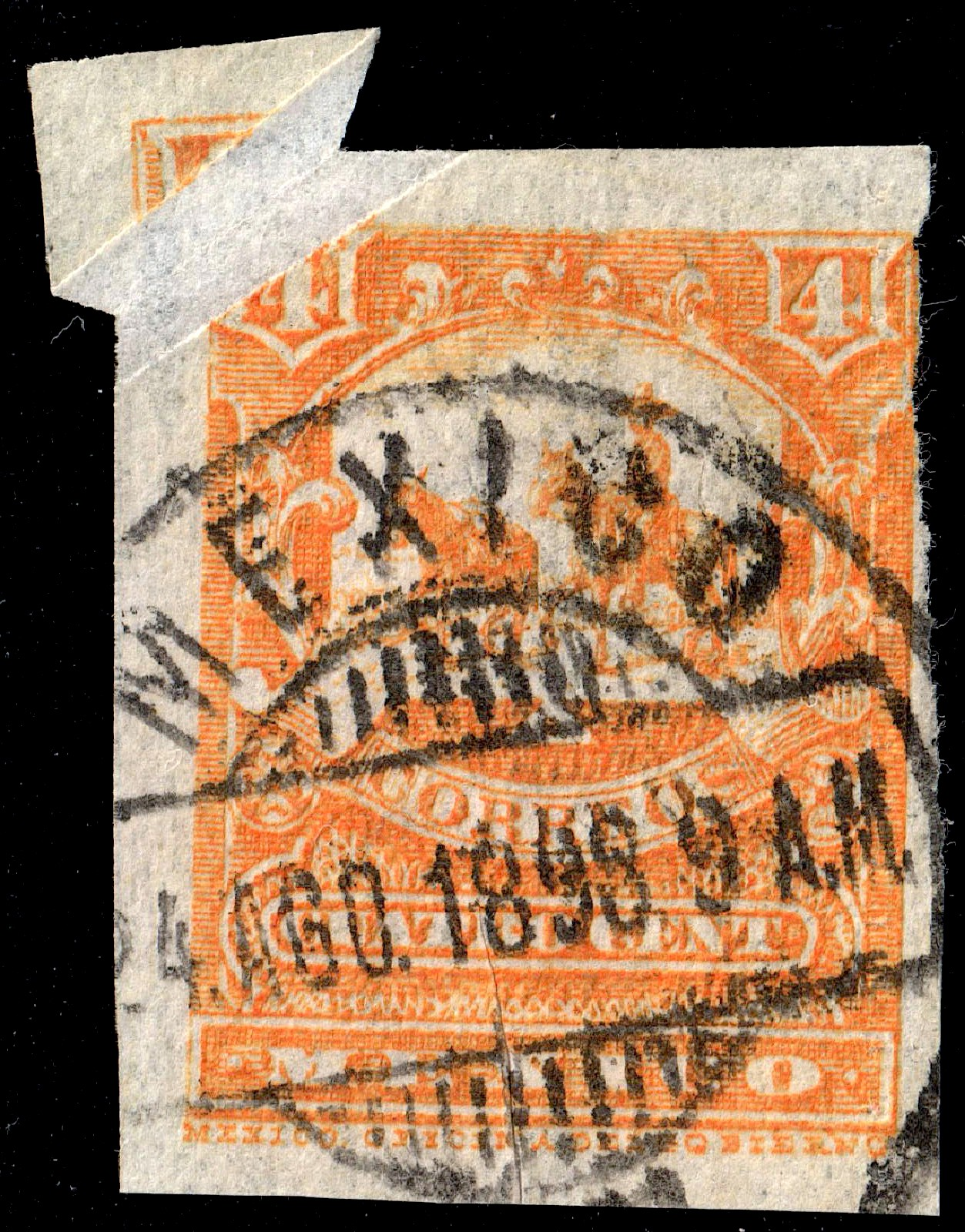 Mexico 1897-98 4c used paper fold Sc271